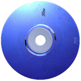 improved version of